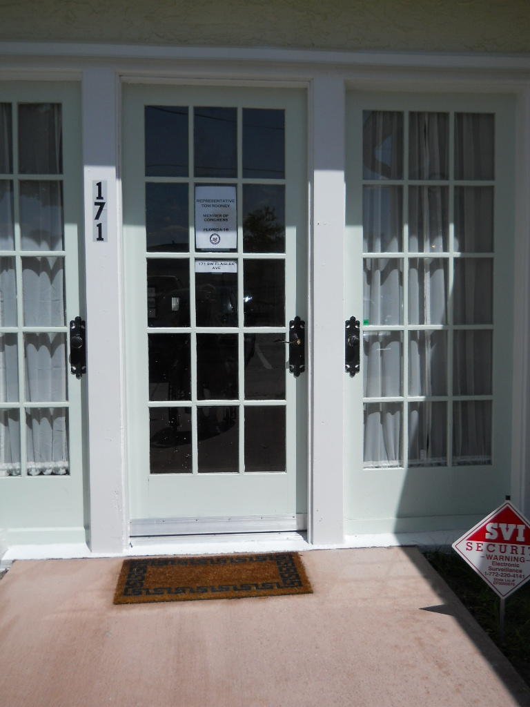 Talley and Evans Crary, Sr., house, bought by them in 1928. Originally located at 311 Cardinal Way, Stuart, Florida. Cut in half in 2010 and moved to 171 SW Flagler Avenue: after restoration: Detail of front entrance. Sign in window in door says that it is the office of Congressman Tom Rooney